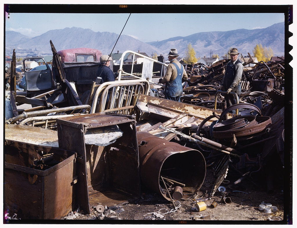 Title: Scrap and salvage depot, Butte, Montana